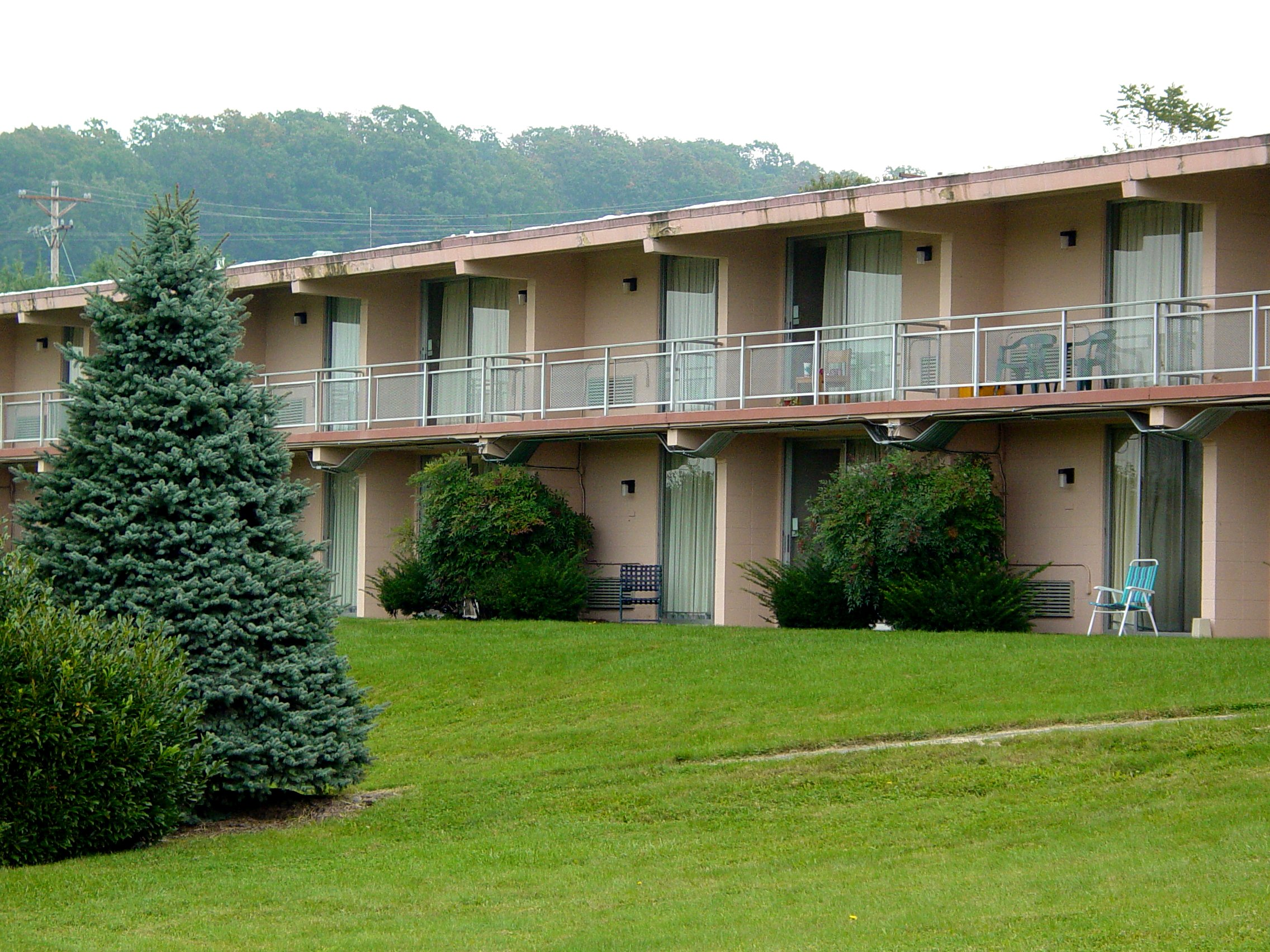 Exterior of Rockingham Hall, a dormitory at James Madison University in Harrisonburg, Virginia. The building was formerly a Howard Johnson's motor lodge.